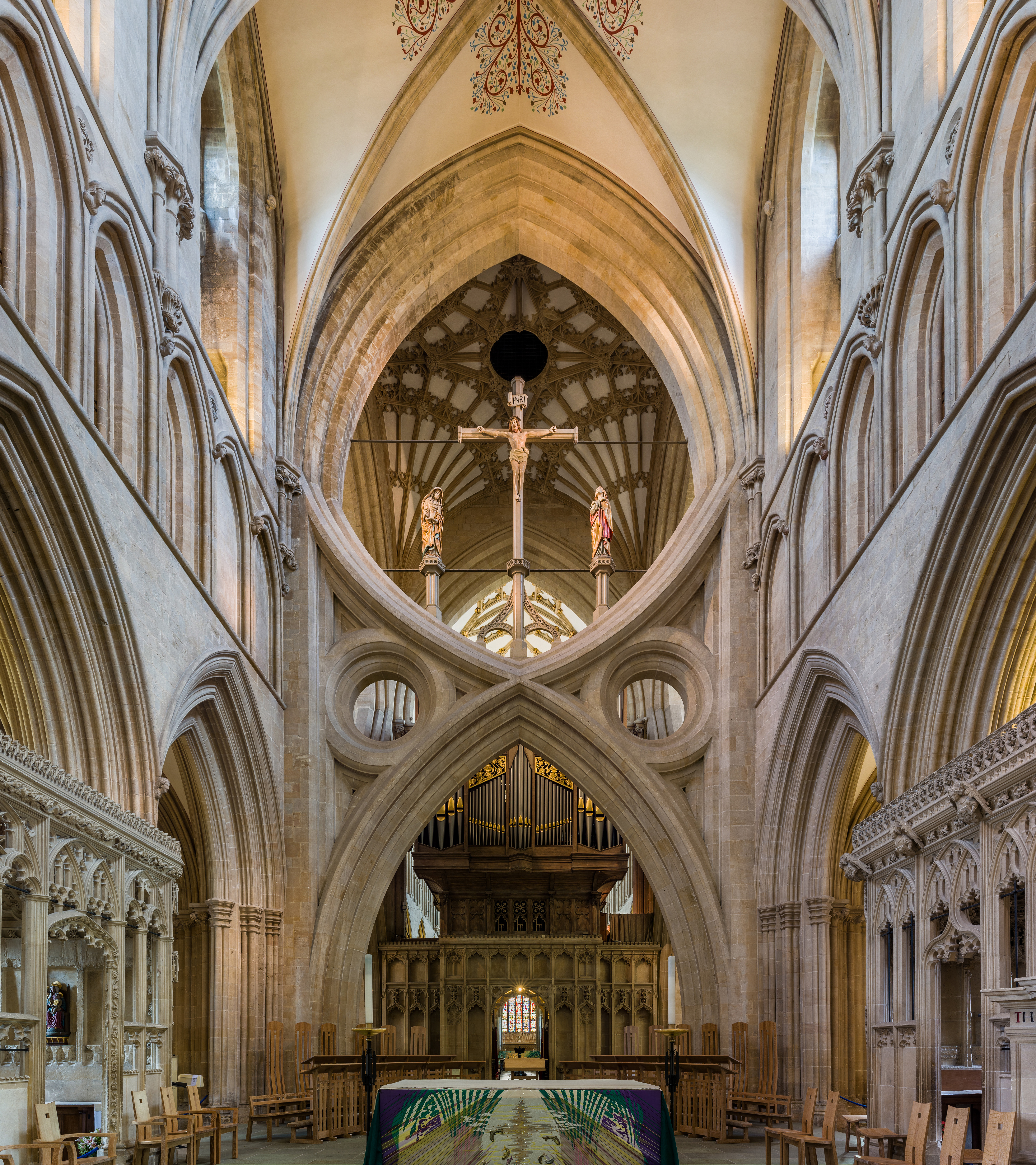 The St Andrew's Cross arches of Wells Cathedral, viewed from the nave.